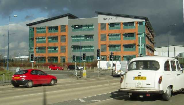 Nexus House The new Greater Manchester Police Headquarters, on Manchester Road near to the Snipe retail park.